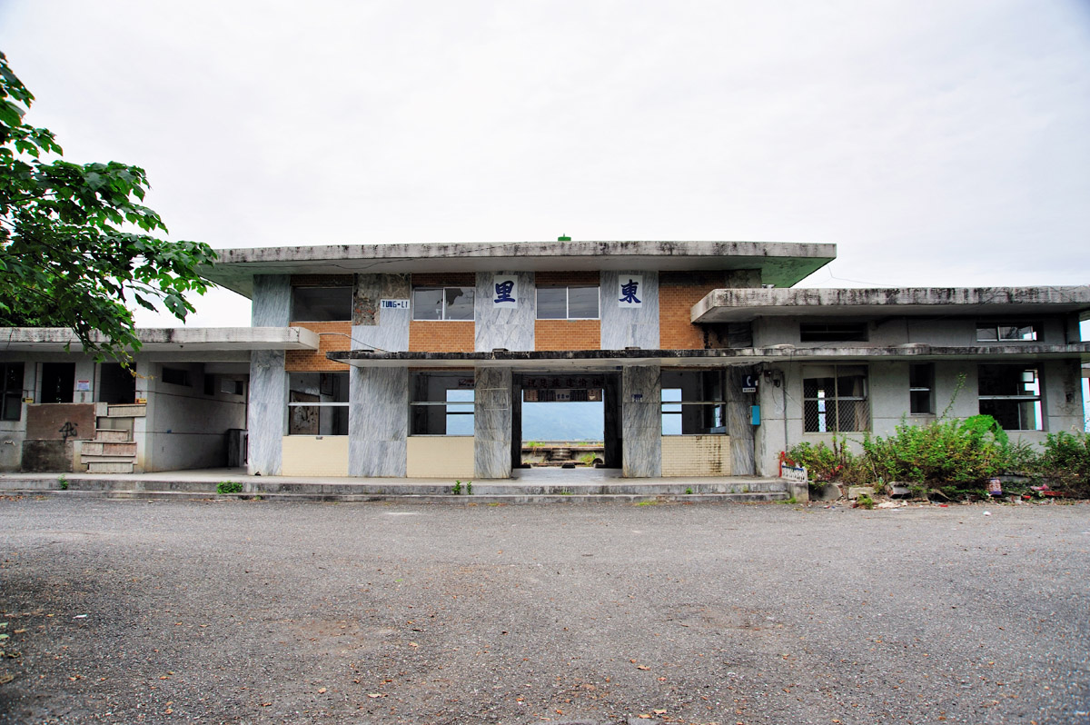 Taiwan Railway Administration Old DongLi Station